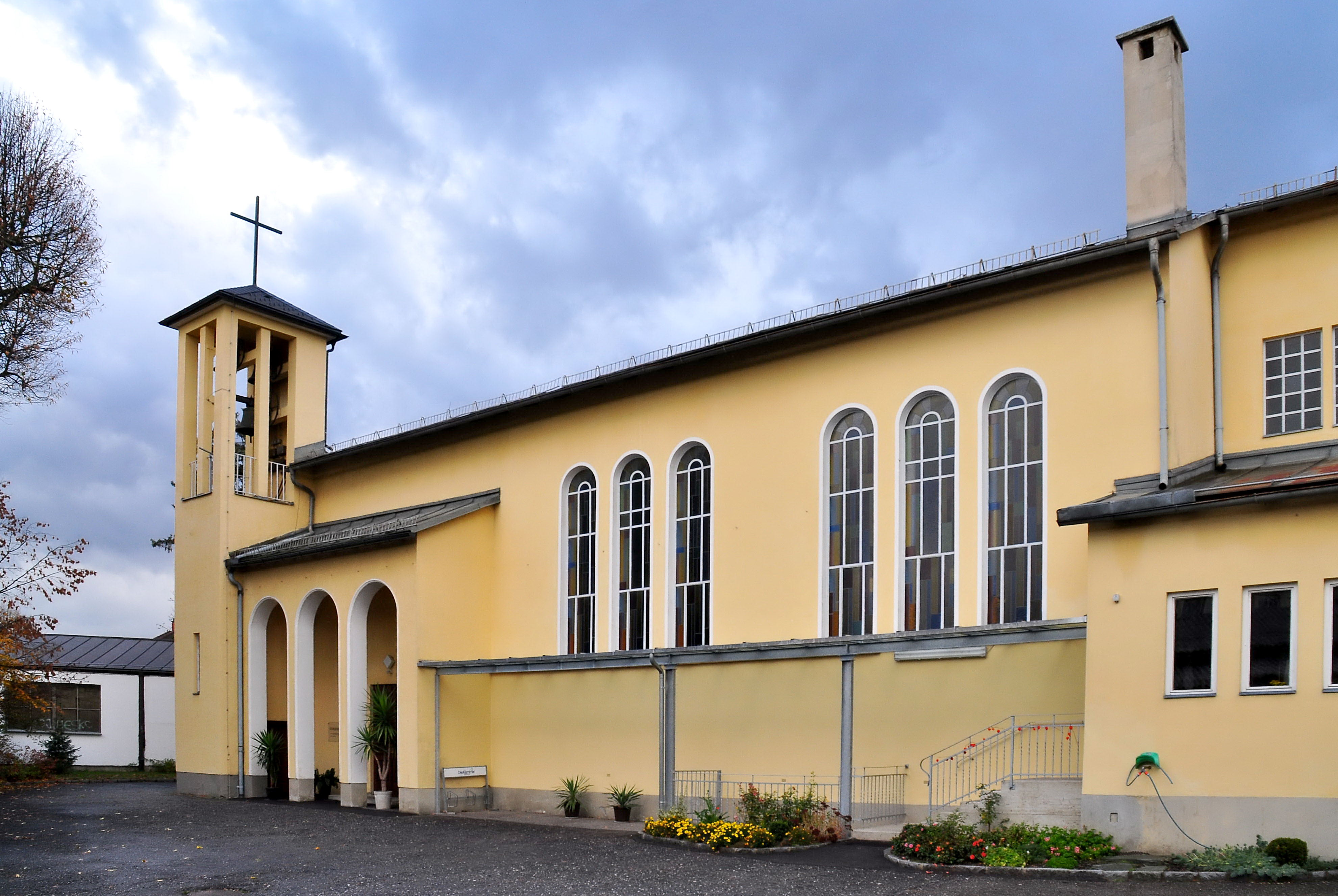 Parish church "Sumptuous Blood" in the 9th district “Annabichl” of the Carinthian capital Klagenfurt on the Lake Woerth, Carinthia, Austria